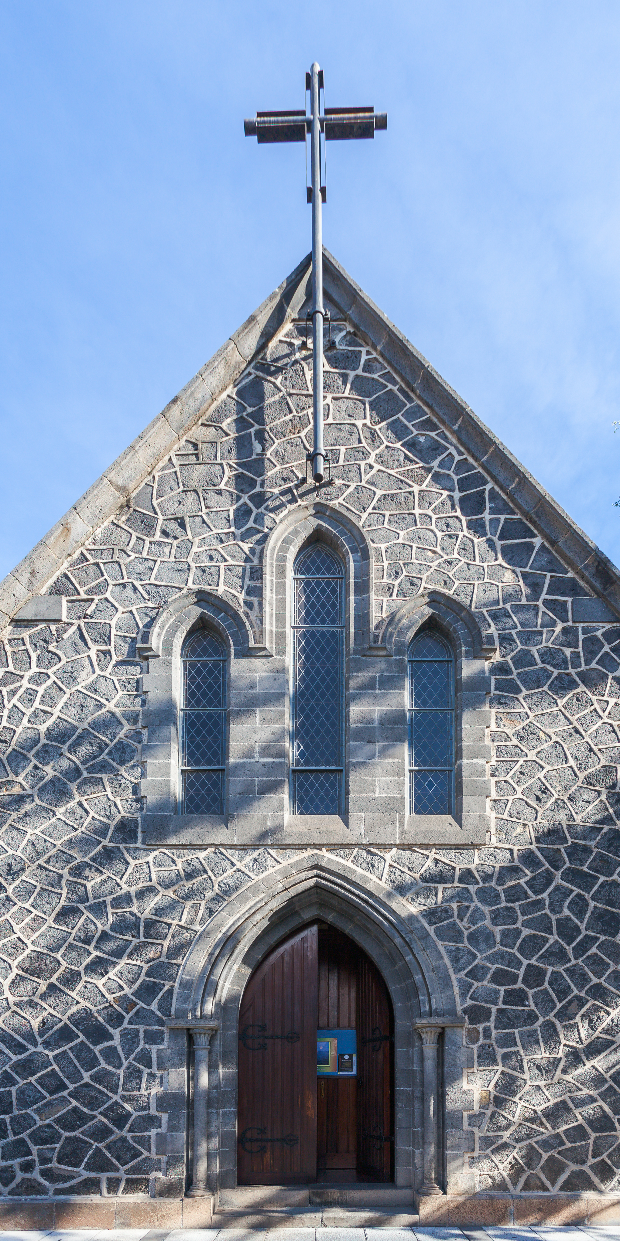 Church of St George, Santa Cruz de Tenerife, Spain